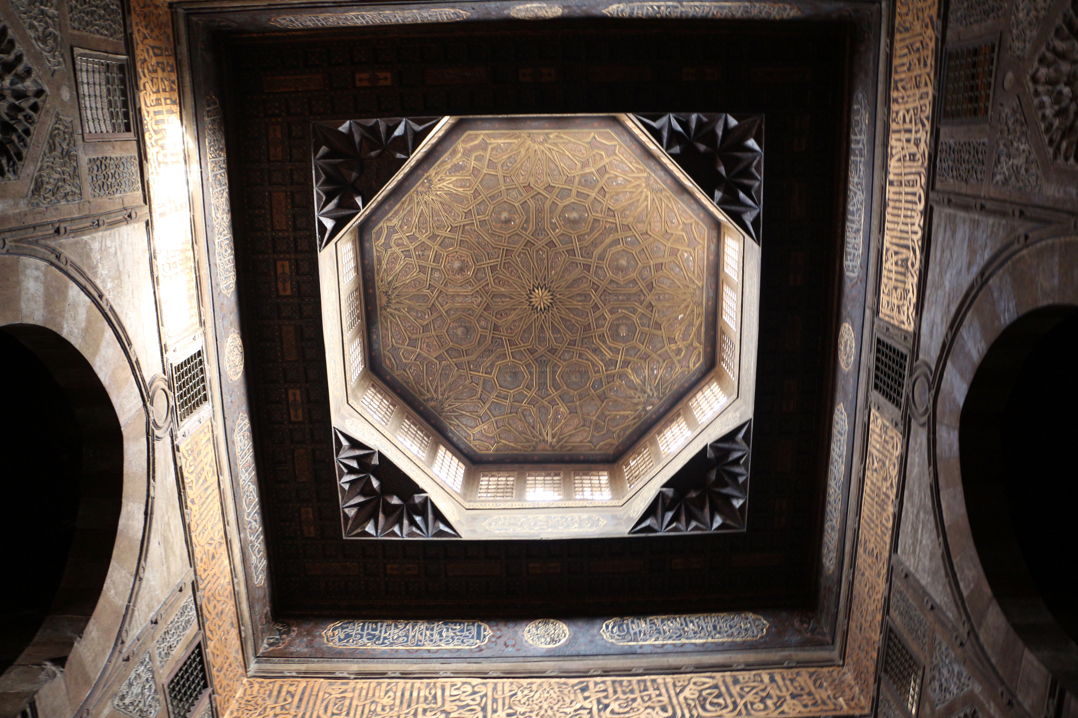 Mosque of Qajmas al-Ishaqi